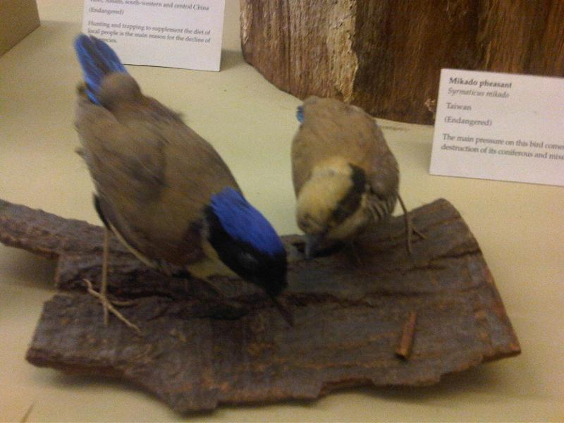 Taxidermied male and female Gurney's Pitta (Hydrornis gurneyi - syn. Pitta gurneyi) at the Natural History Museum in London, England.